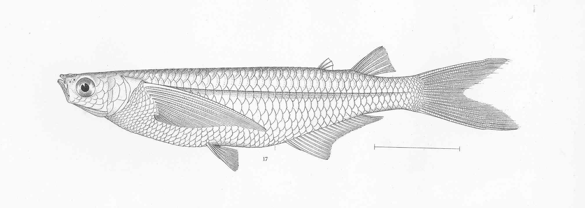 Atherinella panamensis Steindachner. Pahama Subject: Silversides, Atherinella Tag: Fish